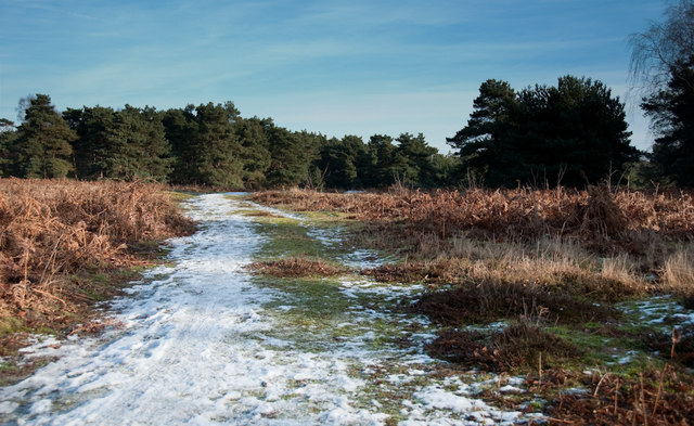 Sutton Common - winter Snow & ice on Sutton Common